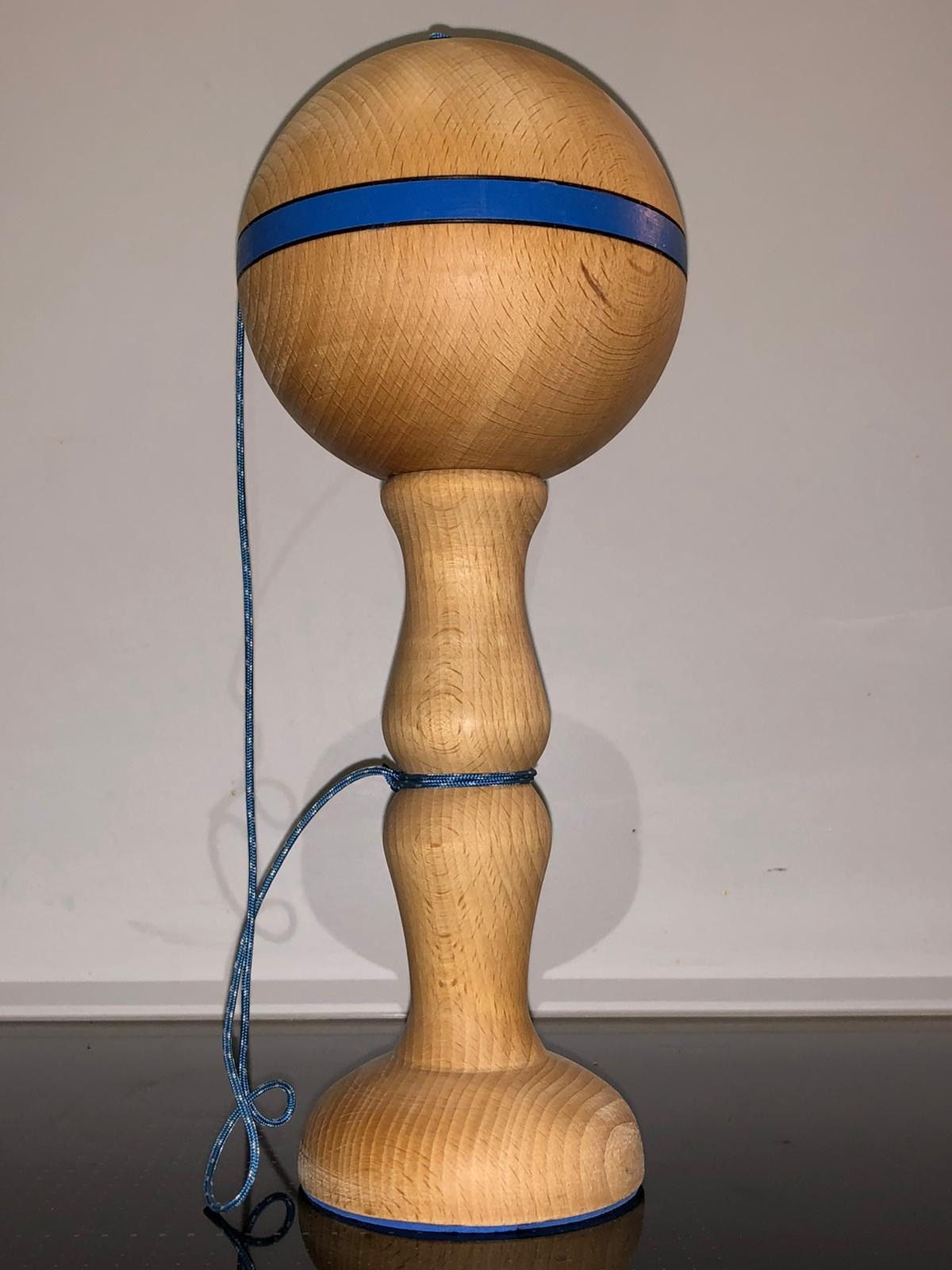 Bilboquet, a cup-and-ball skill toy of French origin